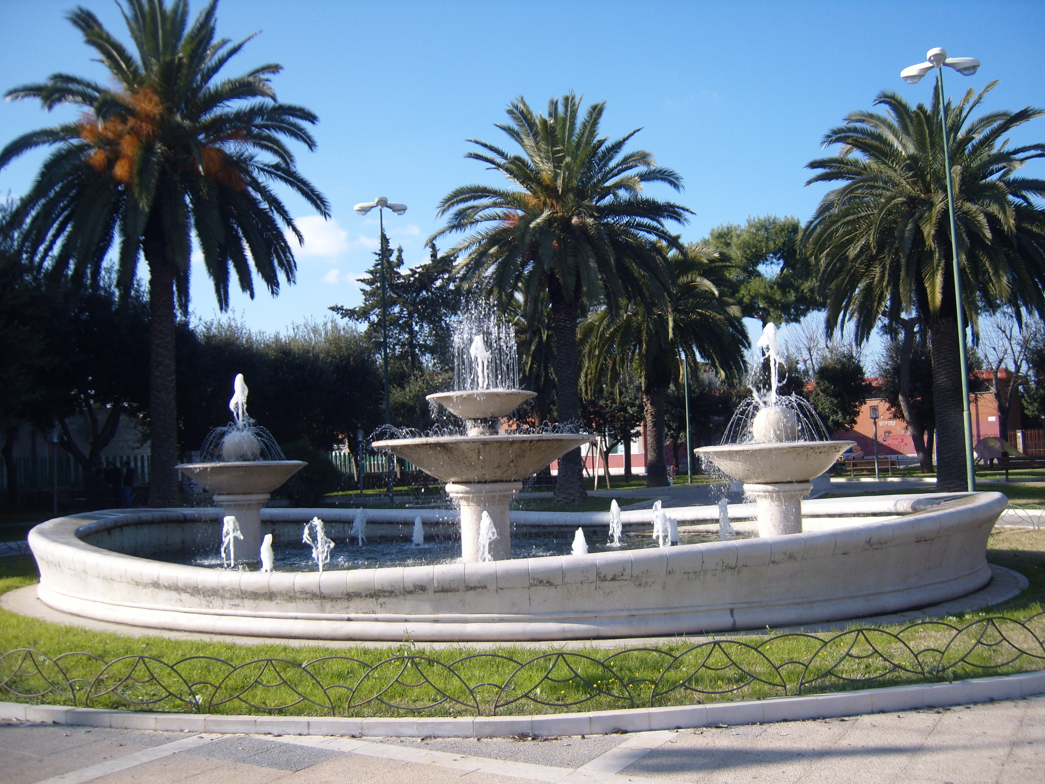 Fountain in Lizzanello, Province of Lecce - Apulia